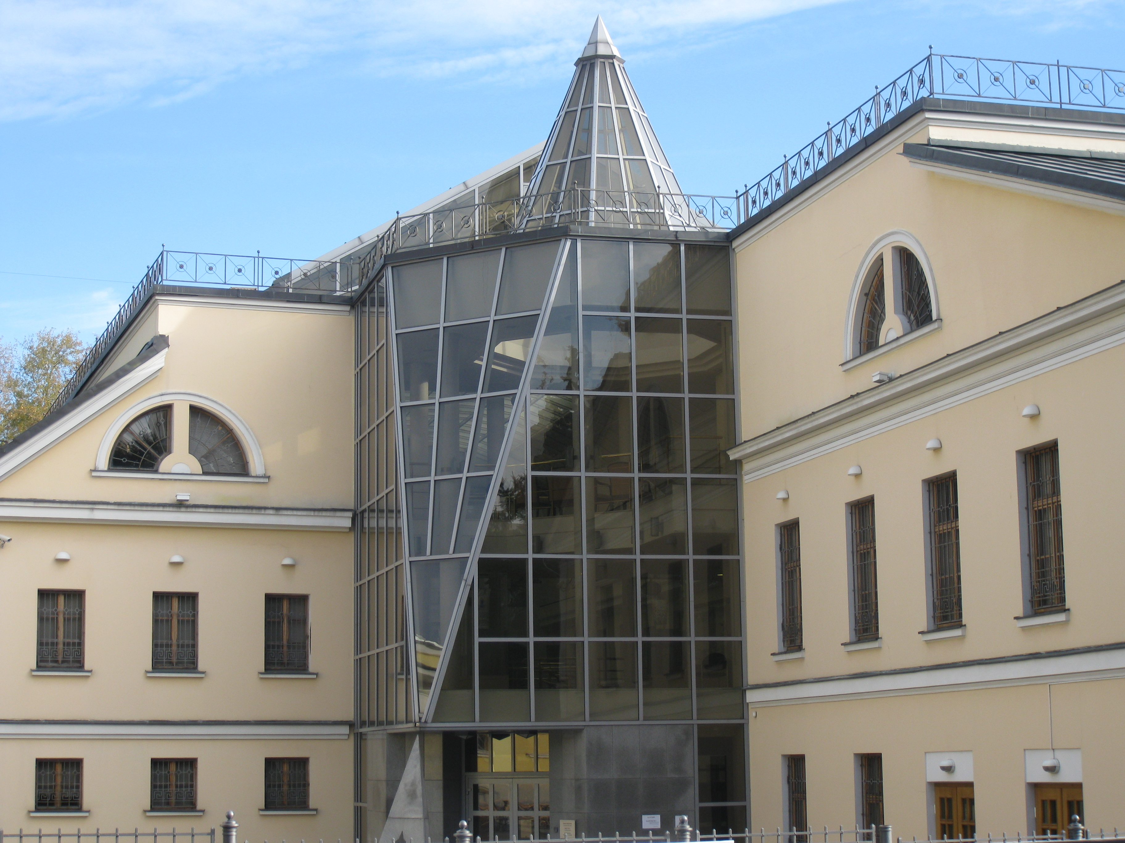 Exterior view of the Pushkin Museum of Private Collections building's entrance. מוזיאון פושקין